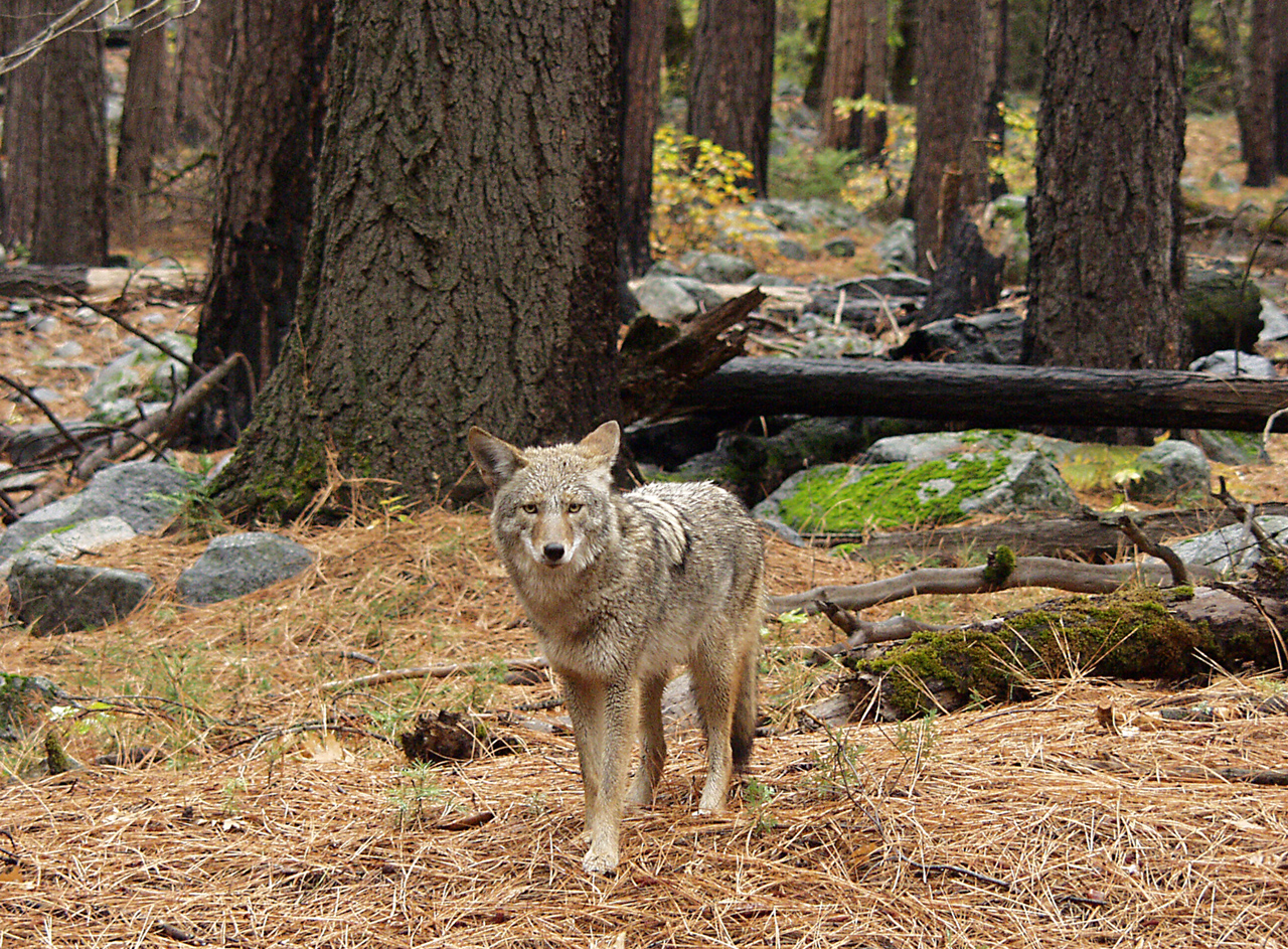 Coyote in forest.